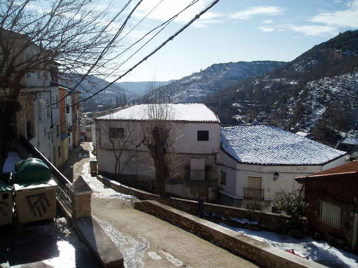 Soledad street, Berninches, Guadalajara, Spain.